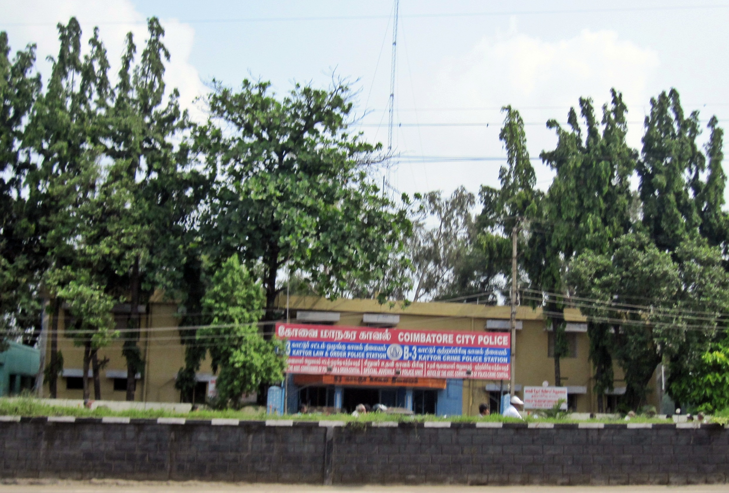 B3- Kattoor police station, Gandhipuram Coimbatore